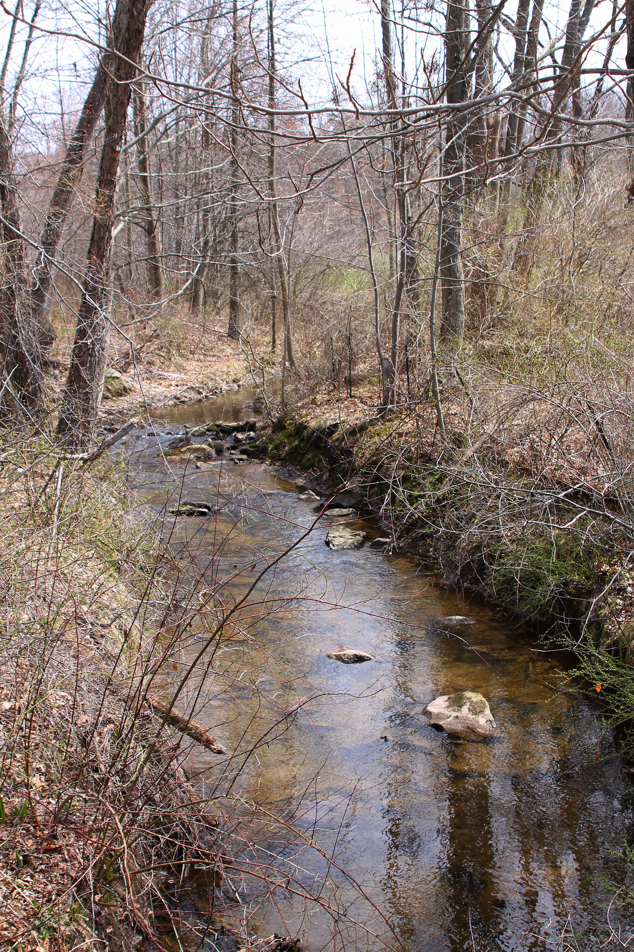 Walker Run looking upstream from Market Street